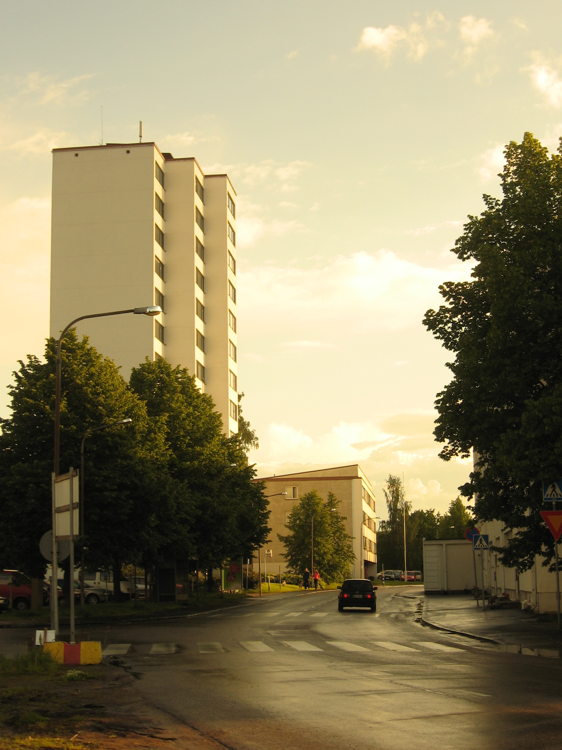 Viitatorni at Viitaniemi, Jyväskylä, Finland.